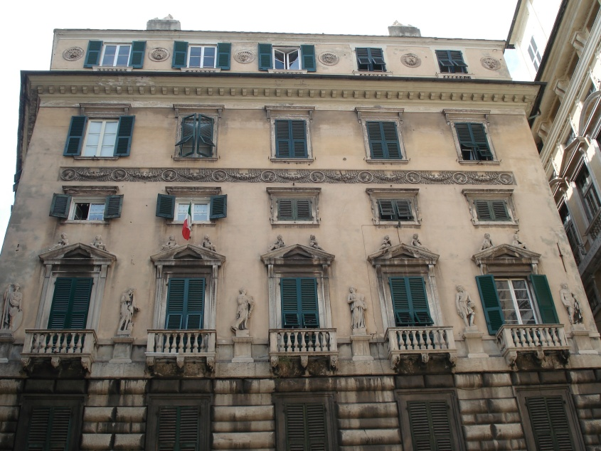 Cipriano Pallavicini Palace in Genova